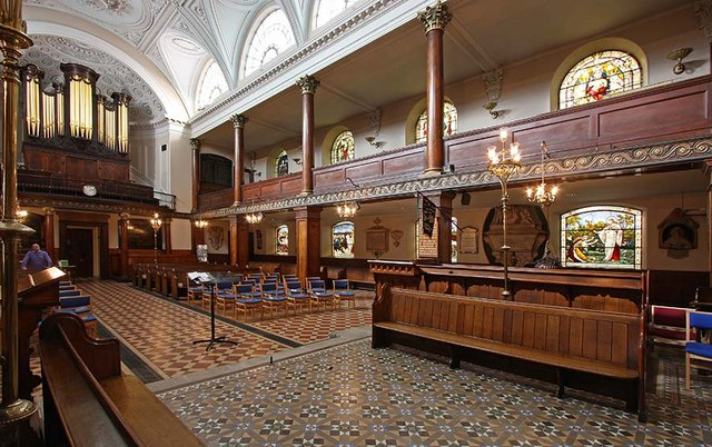 St Botolph without Aldersgate, London EC1 - Interior, near to London, City of London, Great Britain.